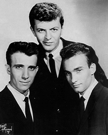 Photo of Dion and The Belmonts from the magazine Hit Parader from September 1960.